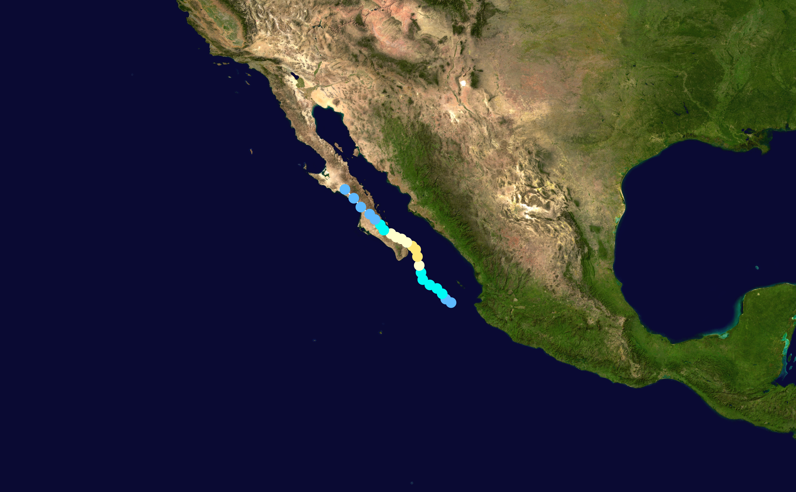 Hurricane Ignacio (2003) track. Uses the color scheme from the Saffir-Simpson Hurricane Scale.